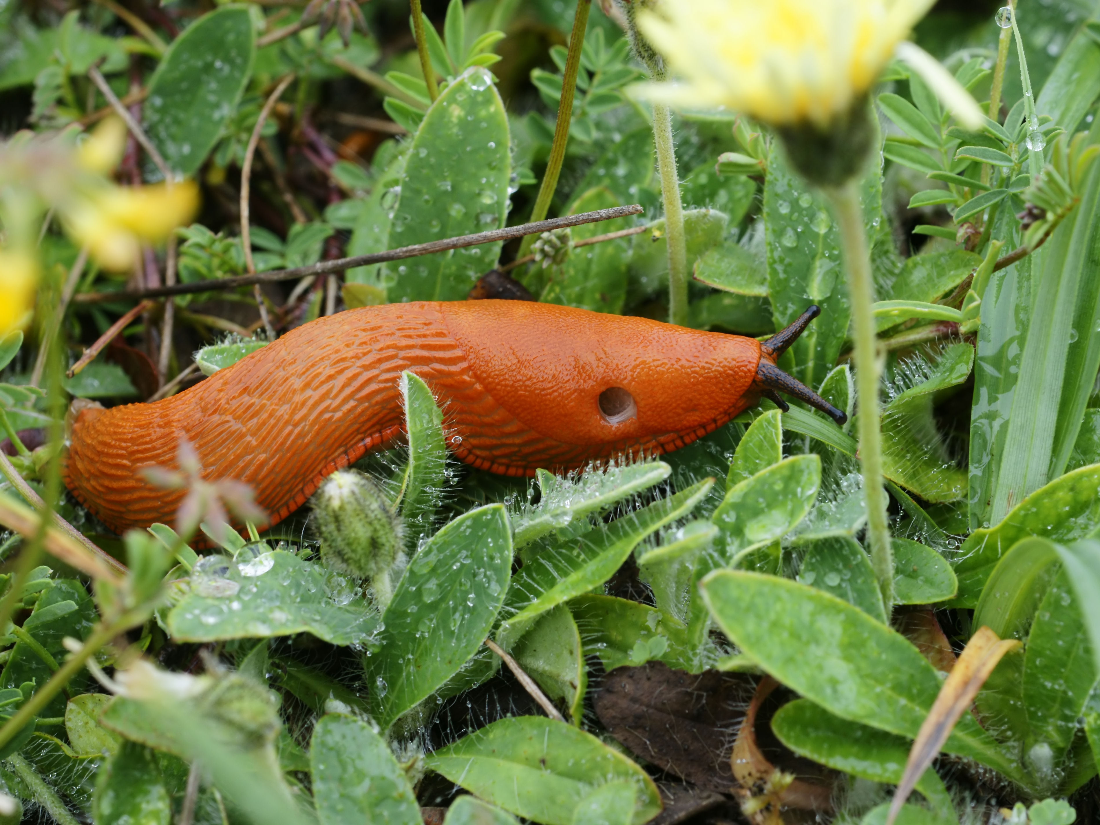 European red slug near Dourbes, Belgium